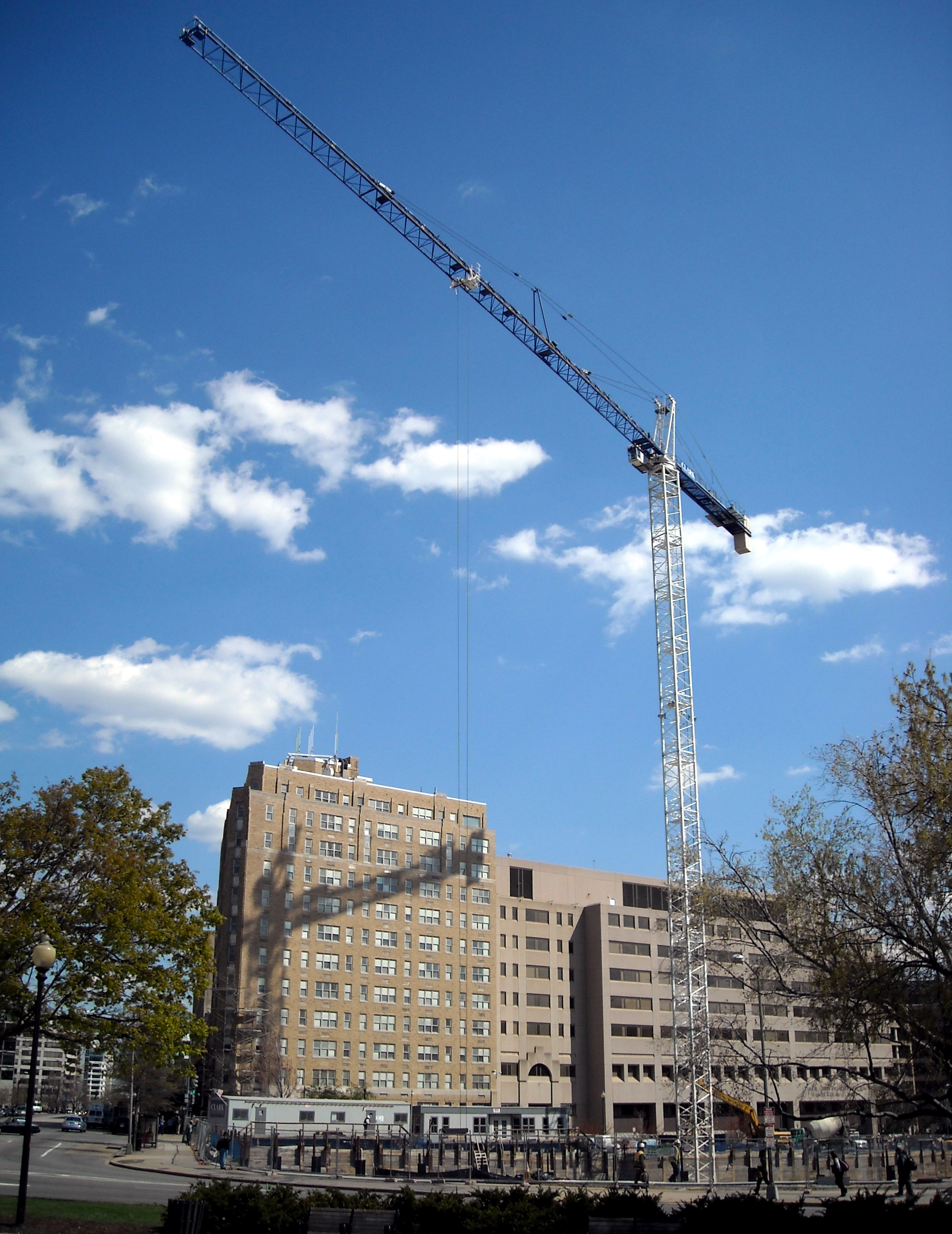 Offices of The George Washington University's Medical Faculty Associates (MFA), located in the Foggy Bottom neighborhood of Washington, D.C. The MFA offices consists of two, adjoining facilities: The H. B. Burns Memorial Building (left), located on the corner of Pennsylvania Avenue and 22nd Street, N.W. - Built in 1931, it was designed by Robert O. Scholz in the Art Deco architectural style, and originally operated as the Keystone Apartments. The Medical Faculty Associates Building (right), located on the corner of 22nd and I Streets, N.W. - Built in 1988, it was designed in the Modern architectural style, and also houses The George Washington University Hospital's Ambulatory Care Center. The tower crane is operating at the Square 54 Redevelopment construction site, a mixed-use complex across the street from the MFA offices.